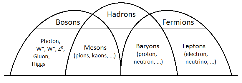 Diagram of the classes of particles in Standard Model.